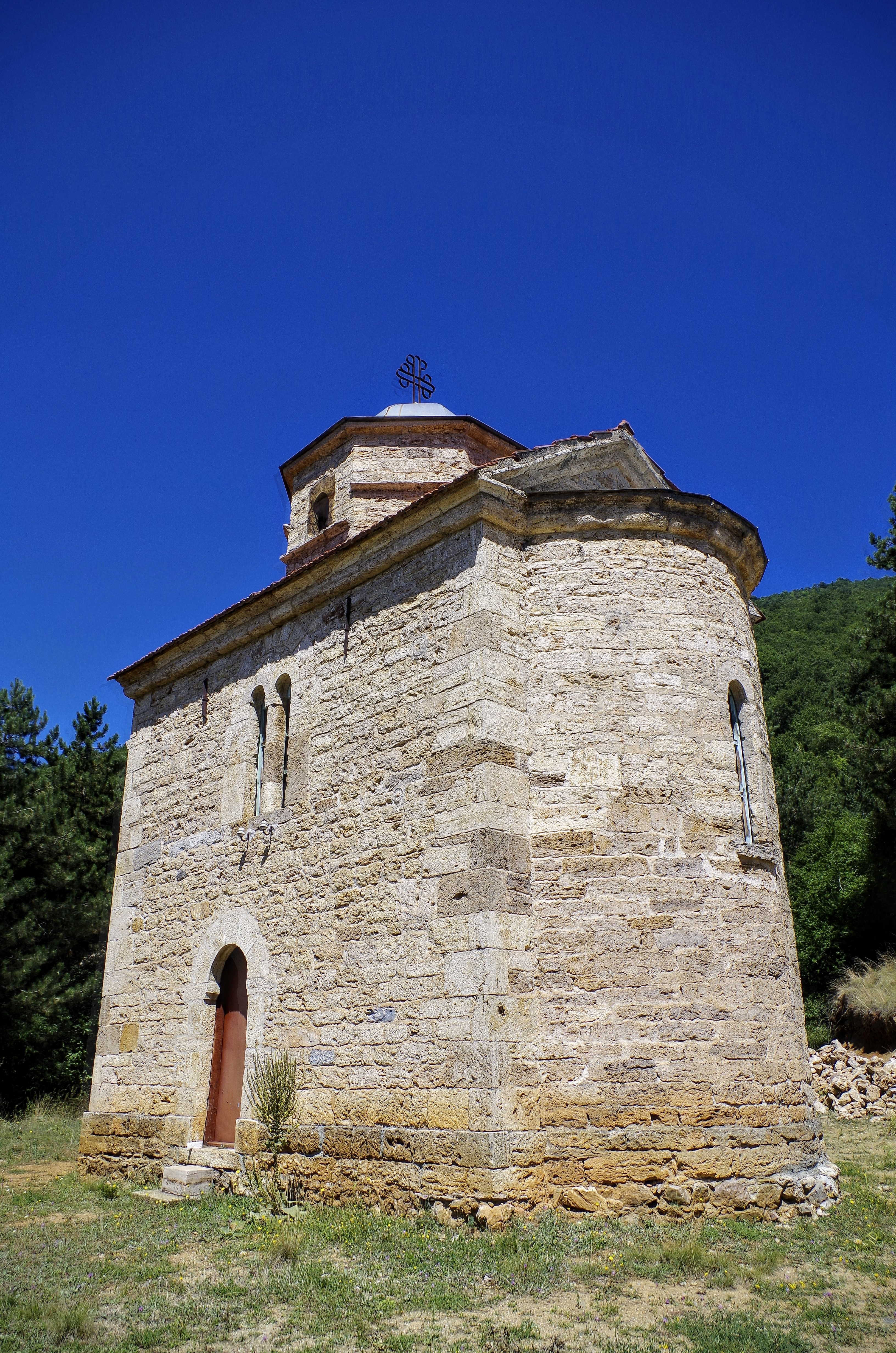 View of St. George's Church in the village Velmej, Macedonia